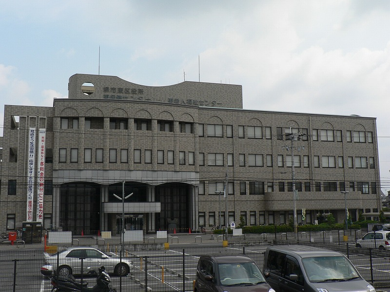 Higashi ward office,Sakai city,Osaka,Japan（大阪府堺市東区役所）